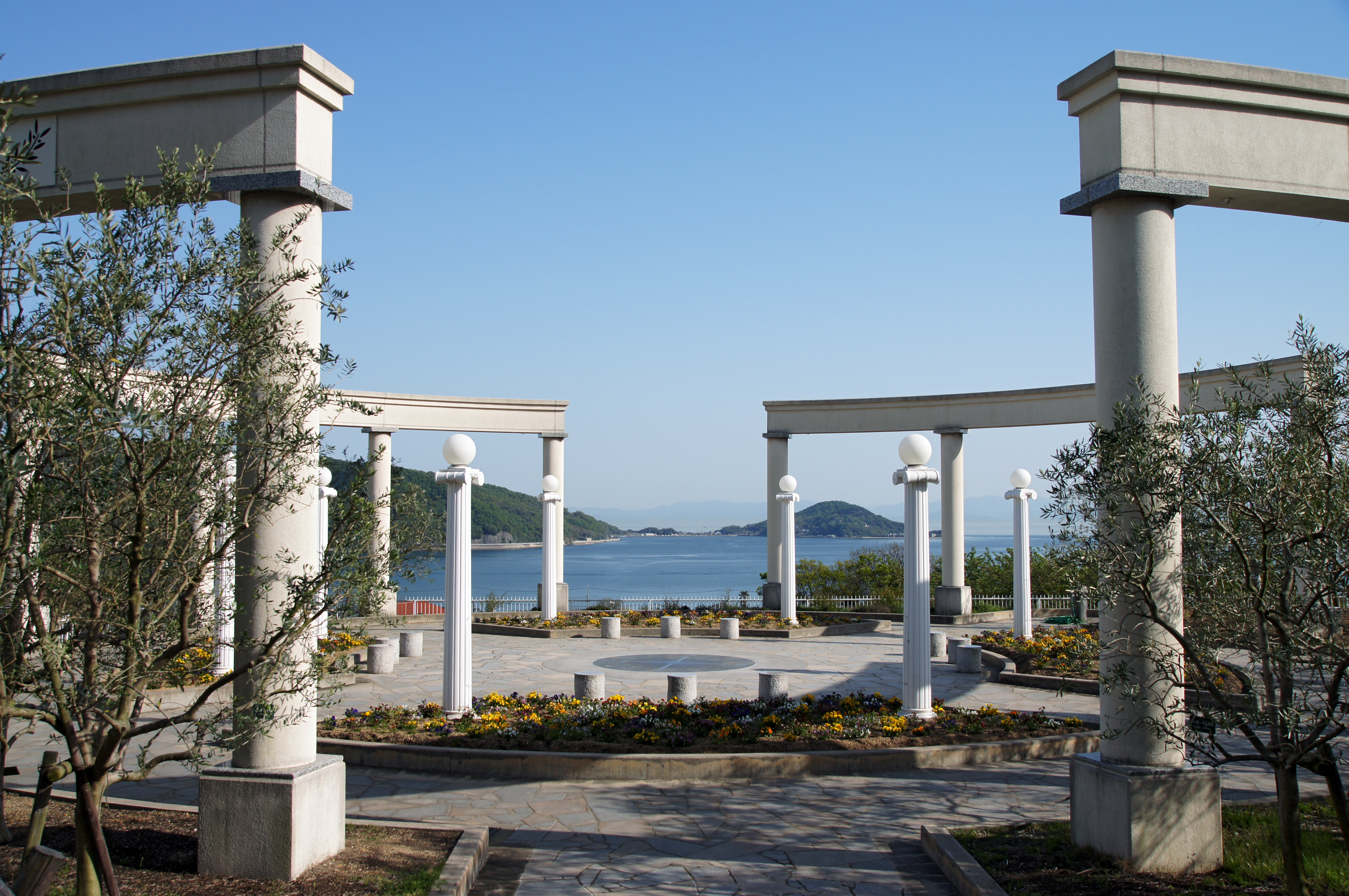 Shodoshima Olive Park of Shōdo Island, Shodoshima, Kagawa prefecture, Japan